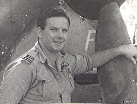 Informal portrait of Adrian Philip Goldsmith DFC DFM, an Australian flying ace of the Second World War.